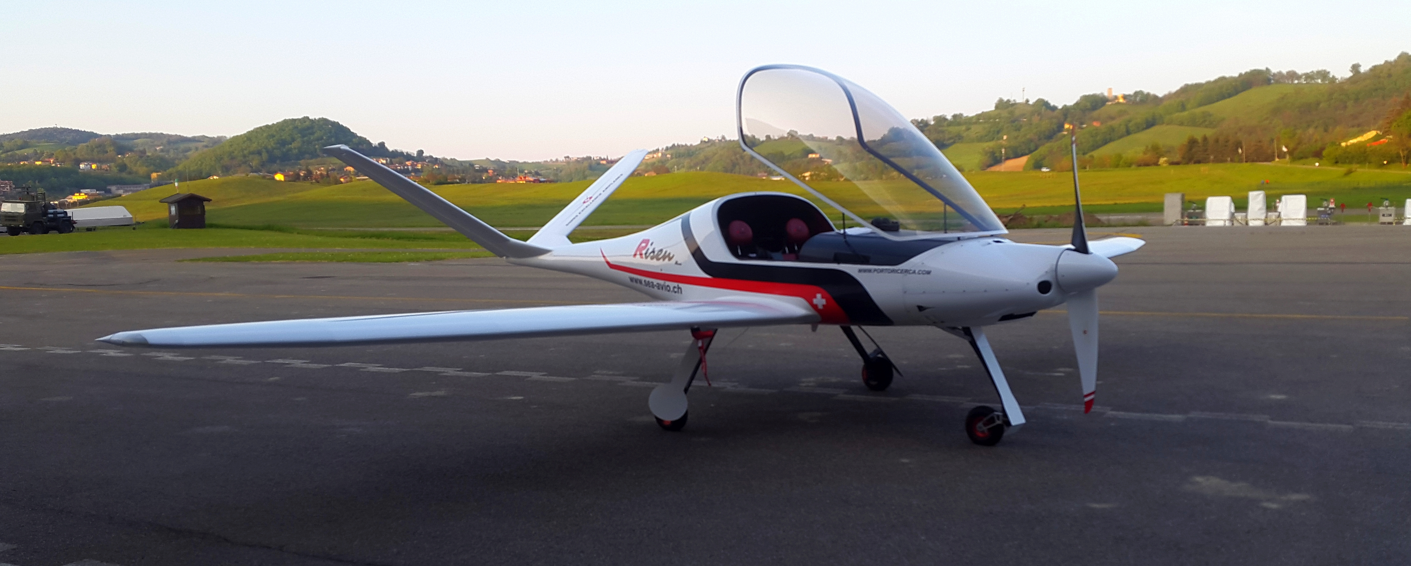 SEA Risen